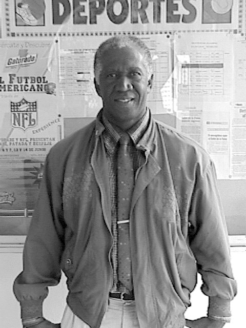 Héctor Thomas picture.